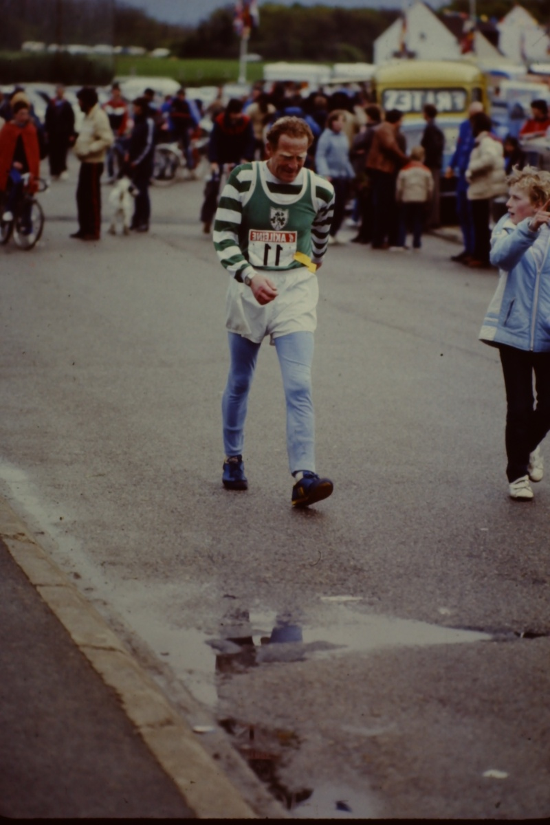 John Dowling